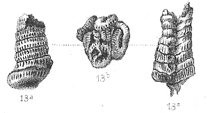 Petaloconchus intortus - Fossil gastropod from Pliocene deposits near Antwerp (Belgium)